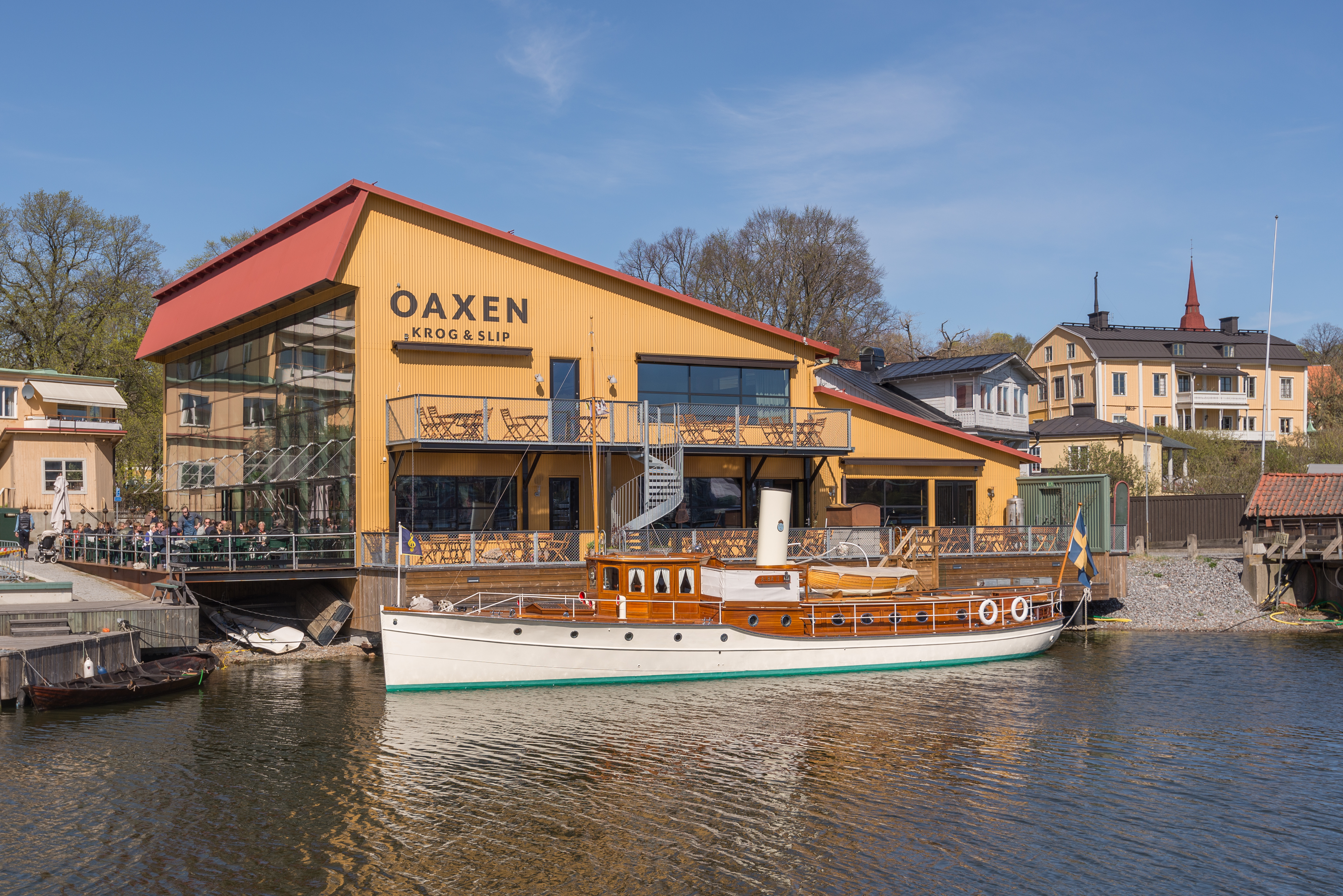 Djurgårdsvarvet, a historic ship yard at Djurgården, Stockholm. In the foreground, Michelin star restaurant Oaxen, with the 1912-built motor yacht Alba II moored outside.